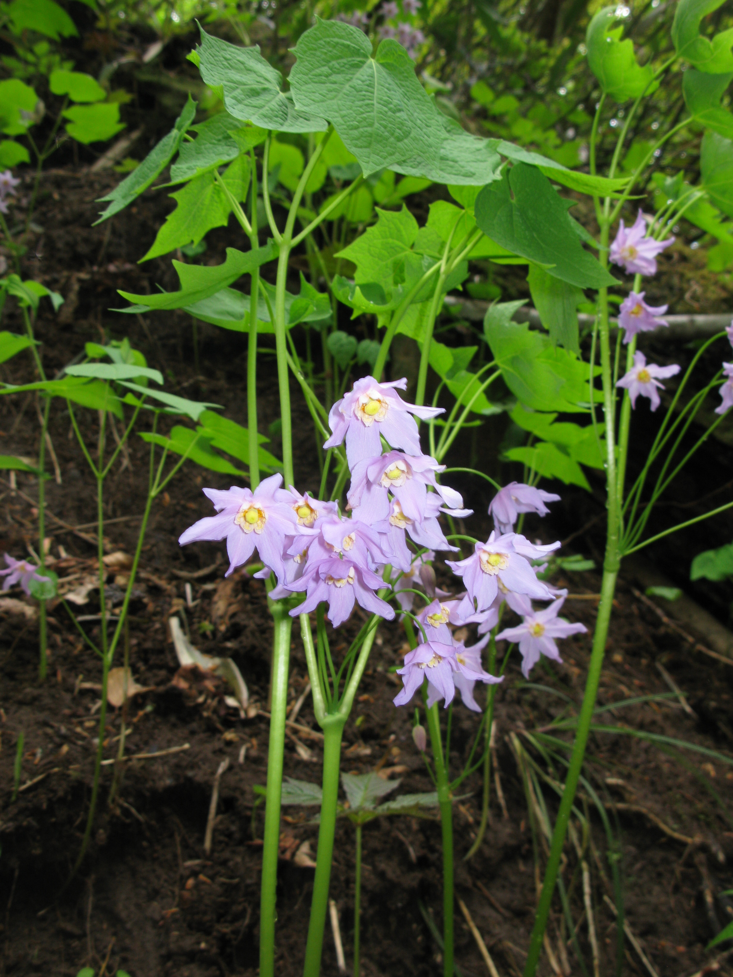 Ranzania japonica, Oze, Fukushima pref., Japan